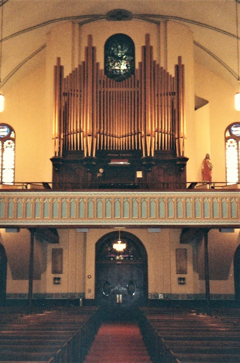 Pipe organ and gallery of St. Mary's Catholic Church in Iowa City, Iowa. This is a scan of a photograph taken in 1992.